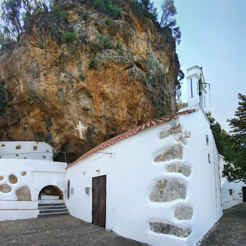 Moni Agion Pateron (Monastery of the Holy Fathers), Azogyres, Crete, Greece.